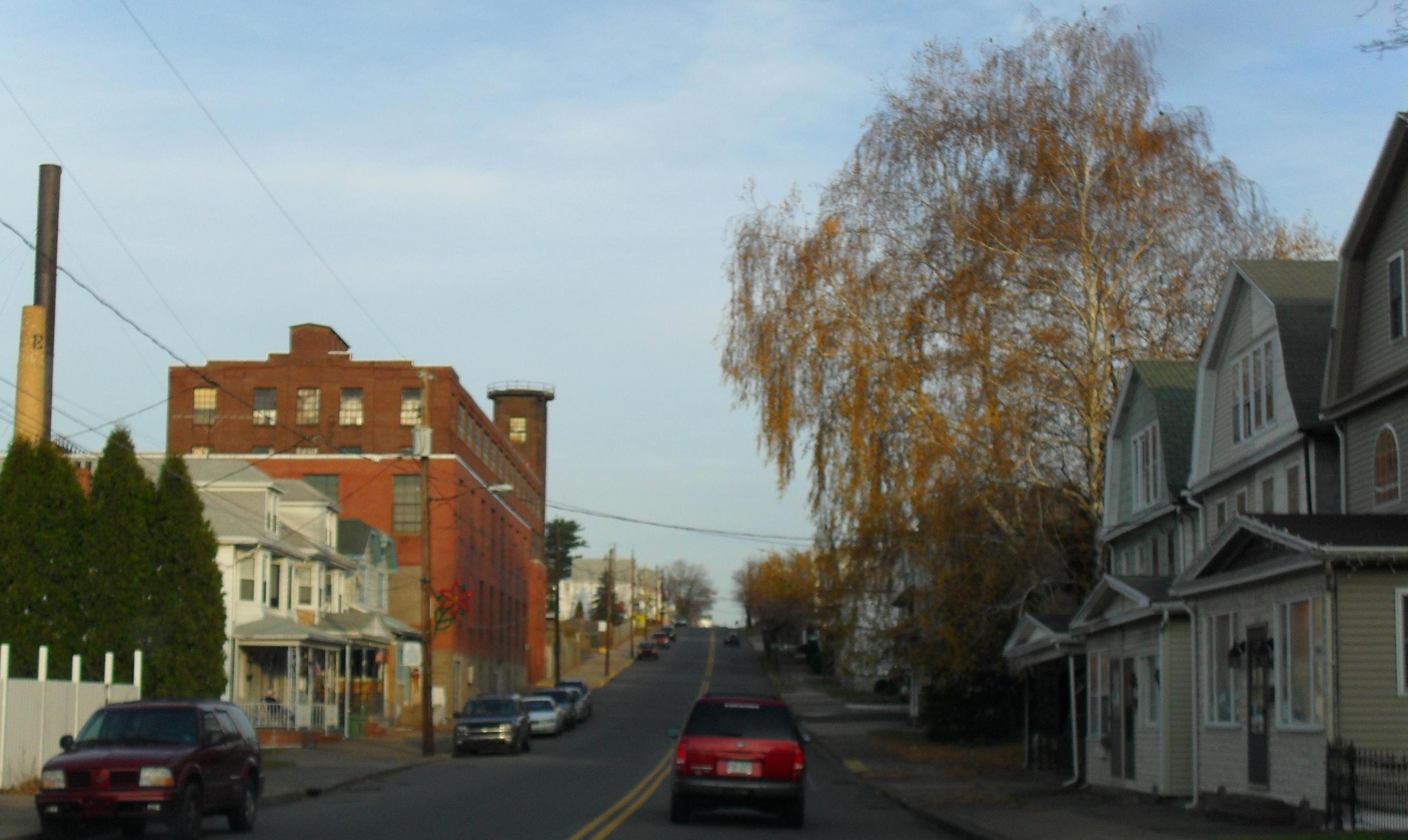 Chestnut Street looking east, Kulpmont, PA, USA.